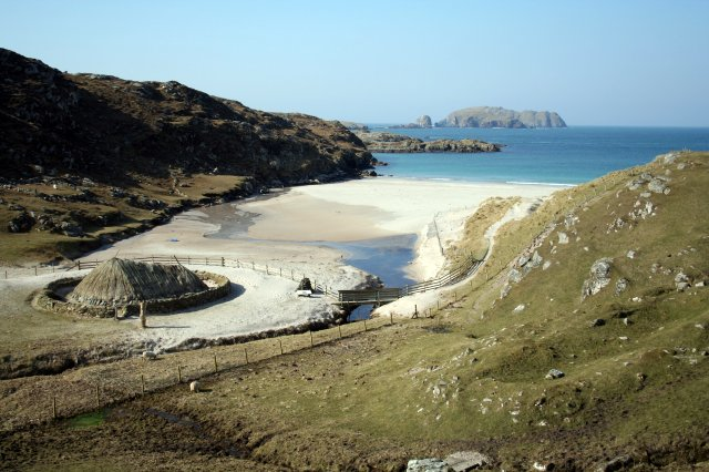 Reconstructed Iron Age dwelling behind Bostadh beach